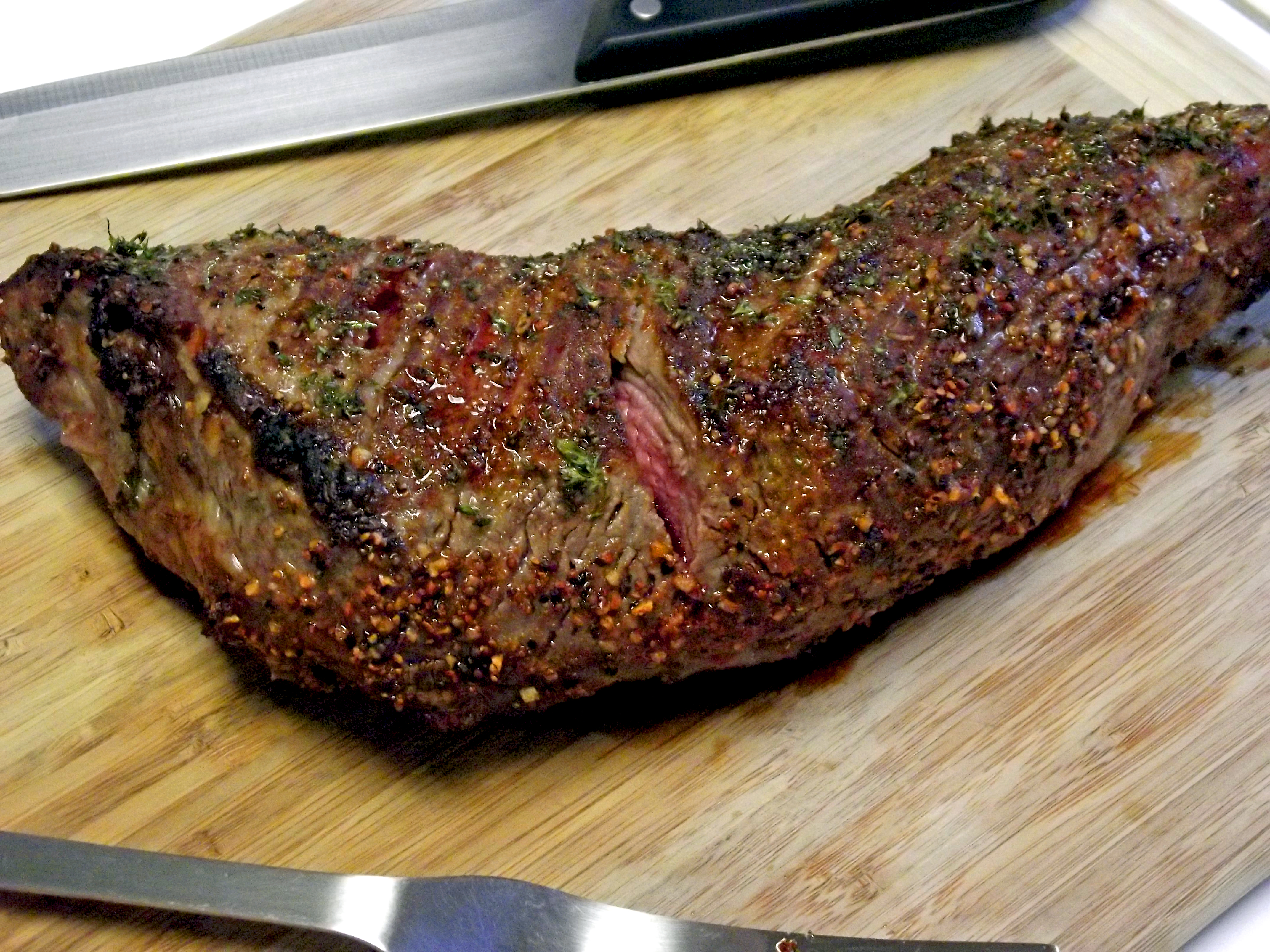 Tri Tip roast.